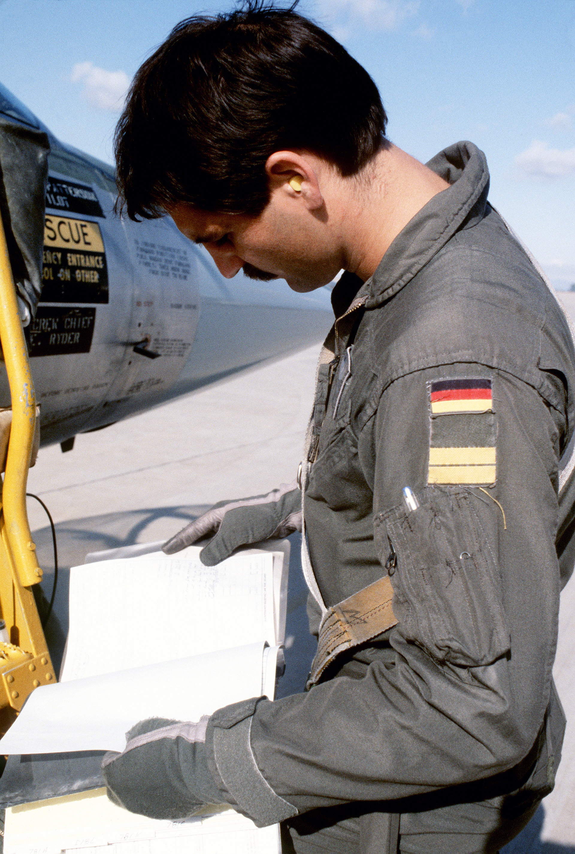 German Navy pilot Leutnant (Lt. JG) Winfried Frank pre-flights an Lockheed F-104G Starfighter aircraft prior to flight training at Luke Air Force Base, Arizona (USA), on 29 November 1982.